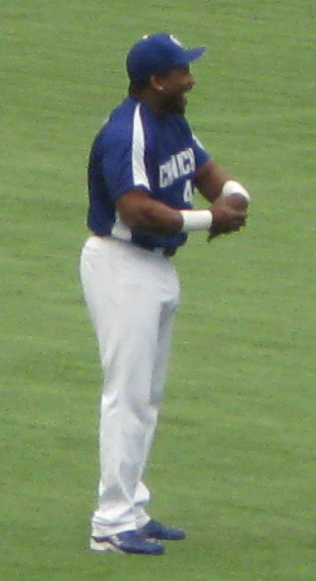 Tyrone Woods, infielder of the Chunichi Dragons, at Seibu Dome.